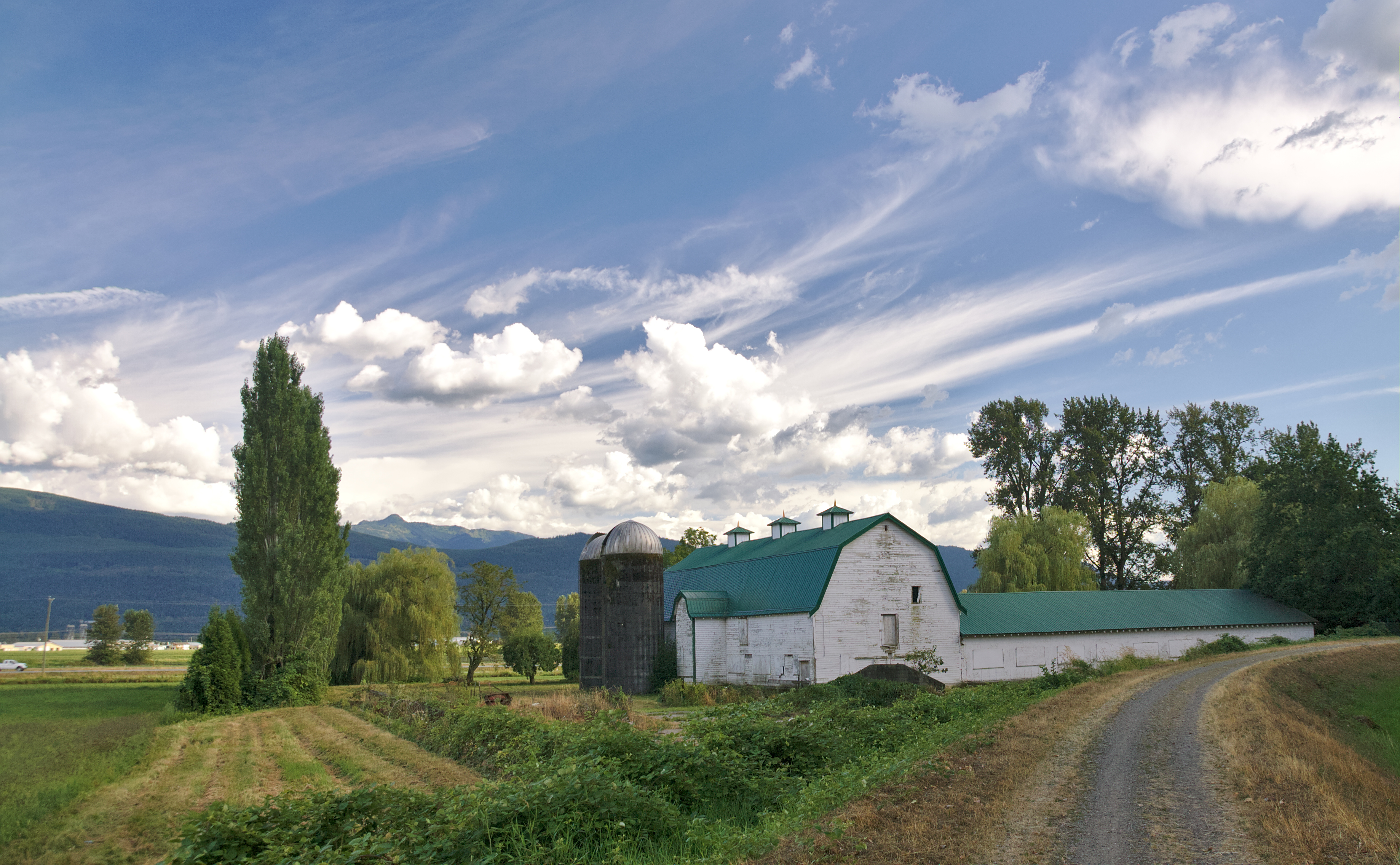 A farm at 39369 N Parallel Rd near McDonald Park, in Abbotsford, British Columbia.